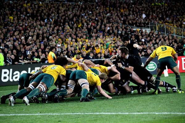 blacks australia 011 IMG_2523 internet